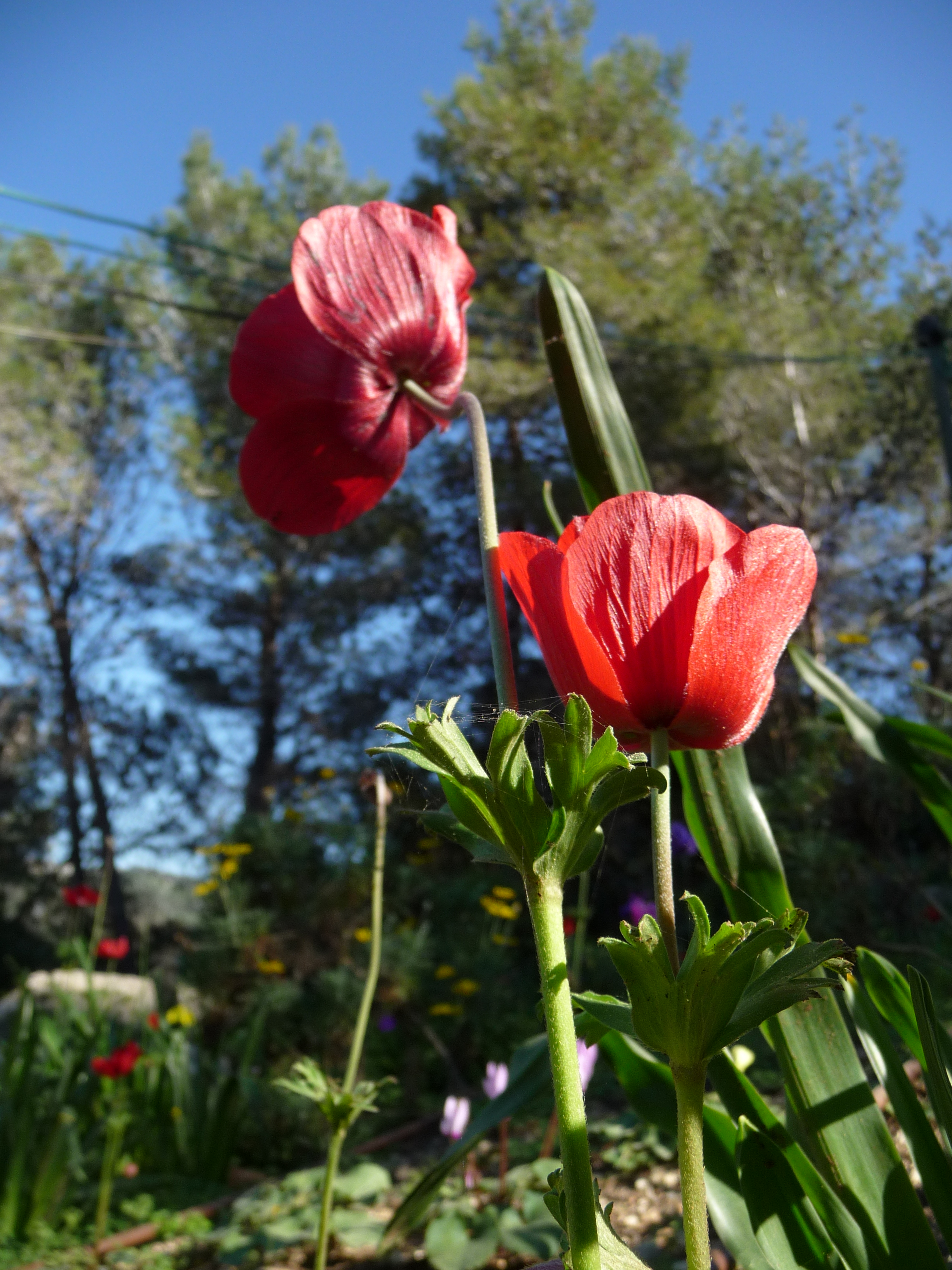 Beit Oren is a kibbutz in northern Israel. It falls under the jurisdiction of Hof HaCarmel Regional Council.